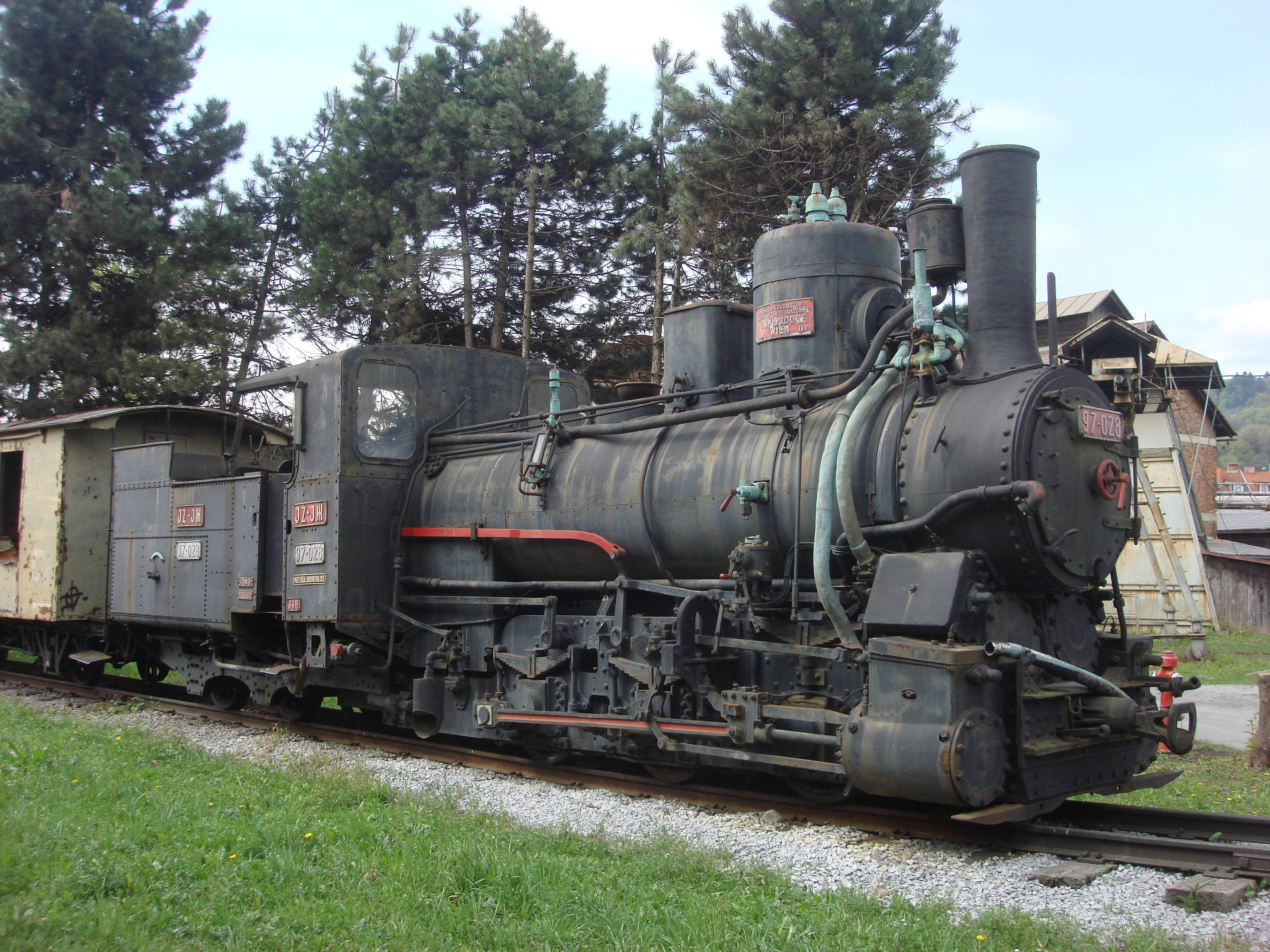 97 028 at Ljubljana